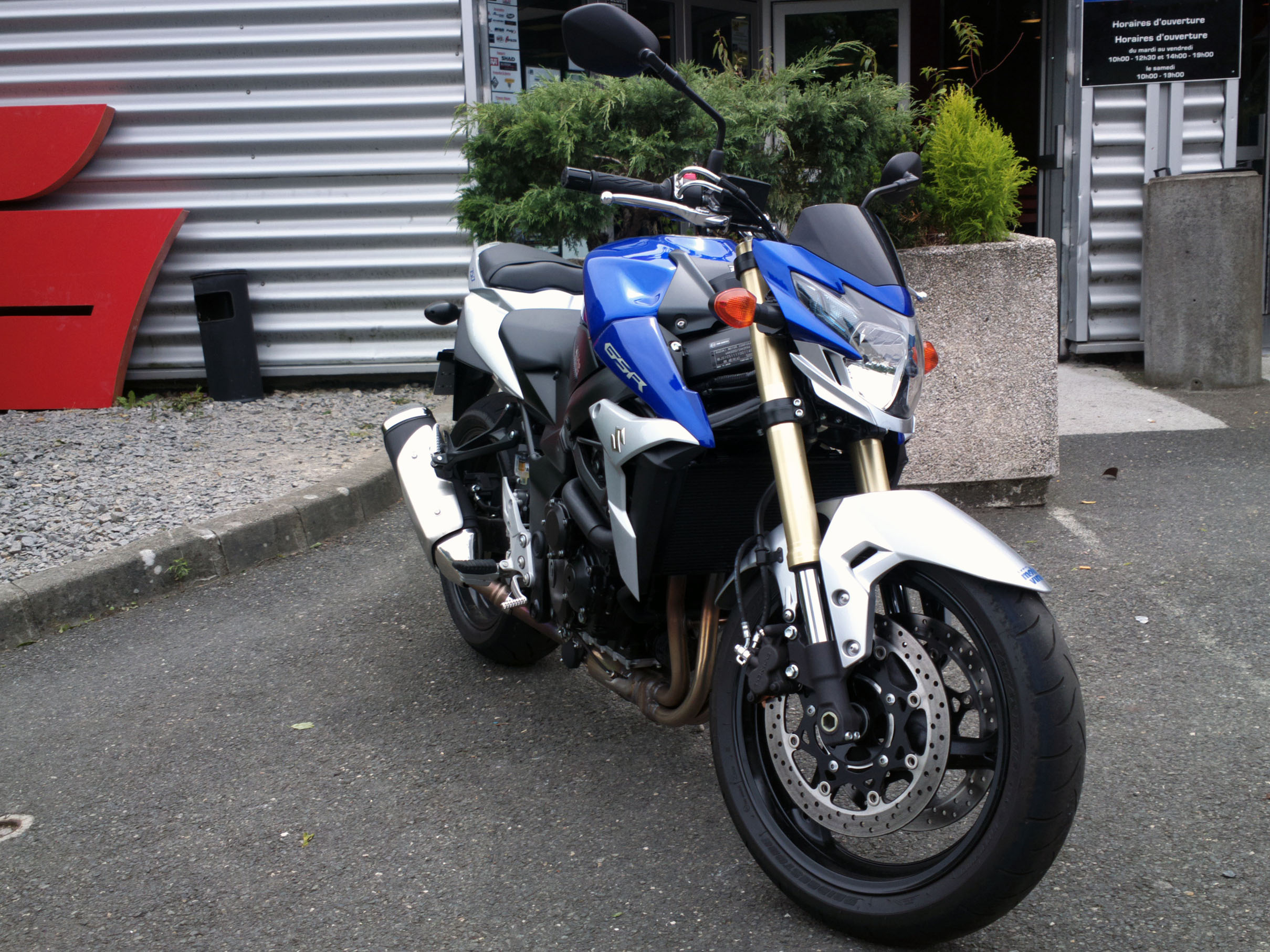 GSR 750 blue/silver